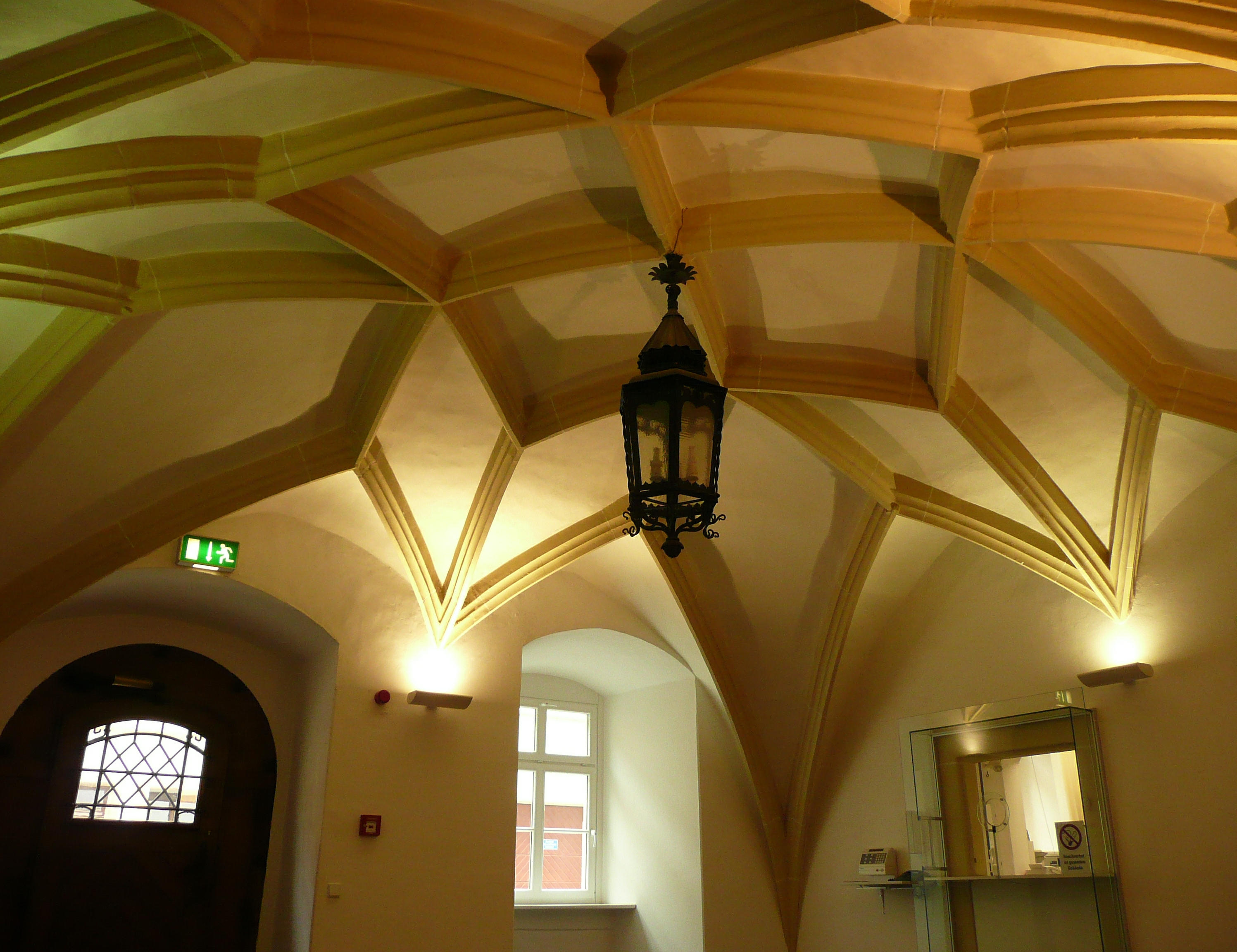 Freiberg: vault inside the saxon board of mines.